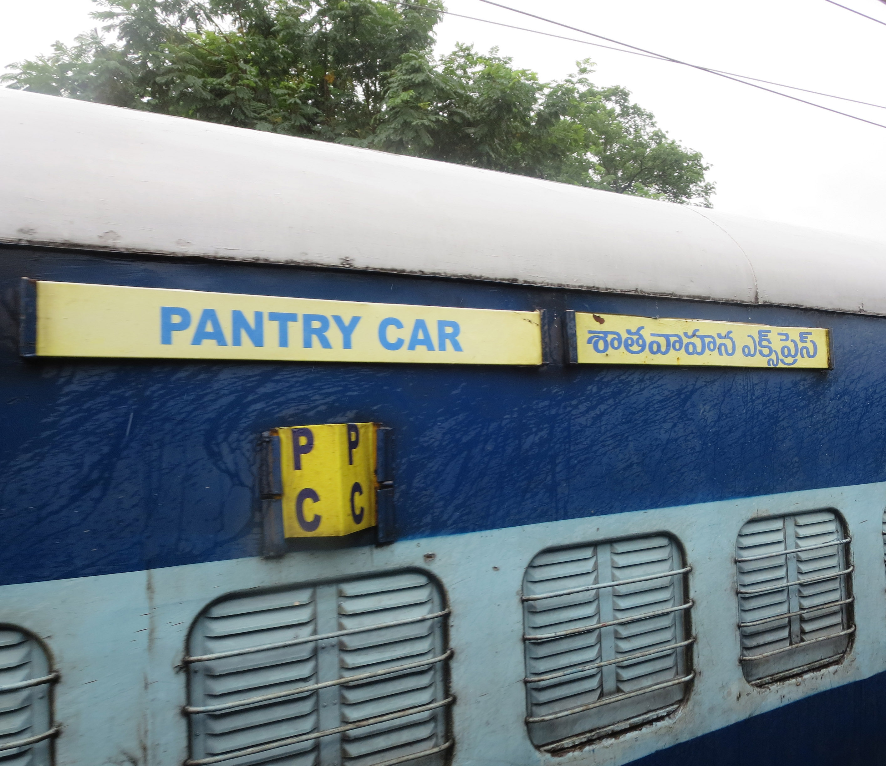 Pantry car of Satavahana express